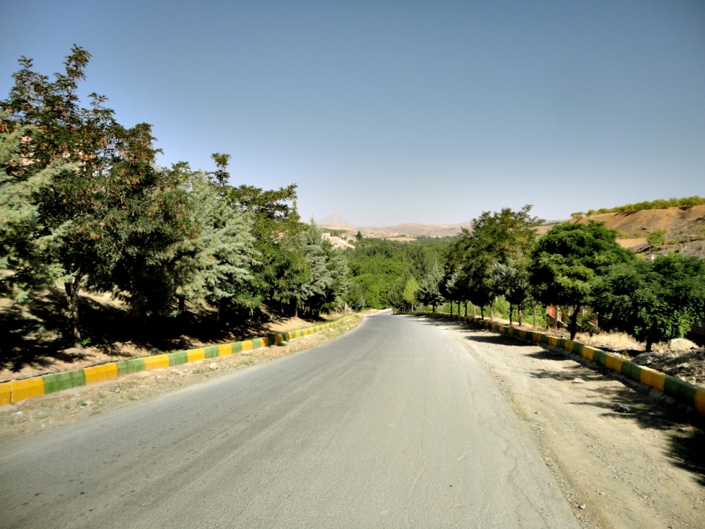 Saman, Iran